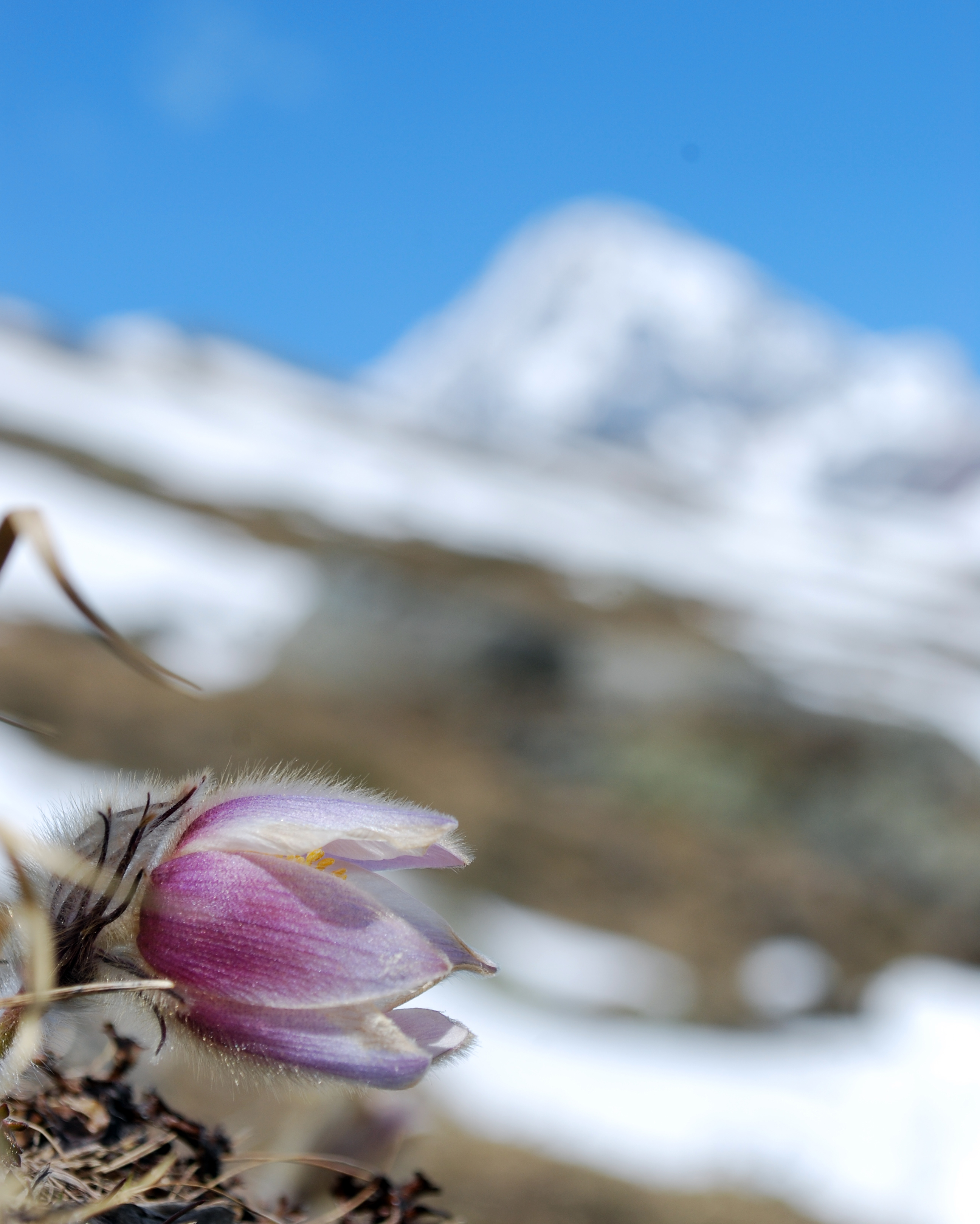 Pulsatilla vernalis, Val di Cedec